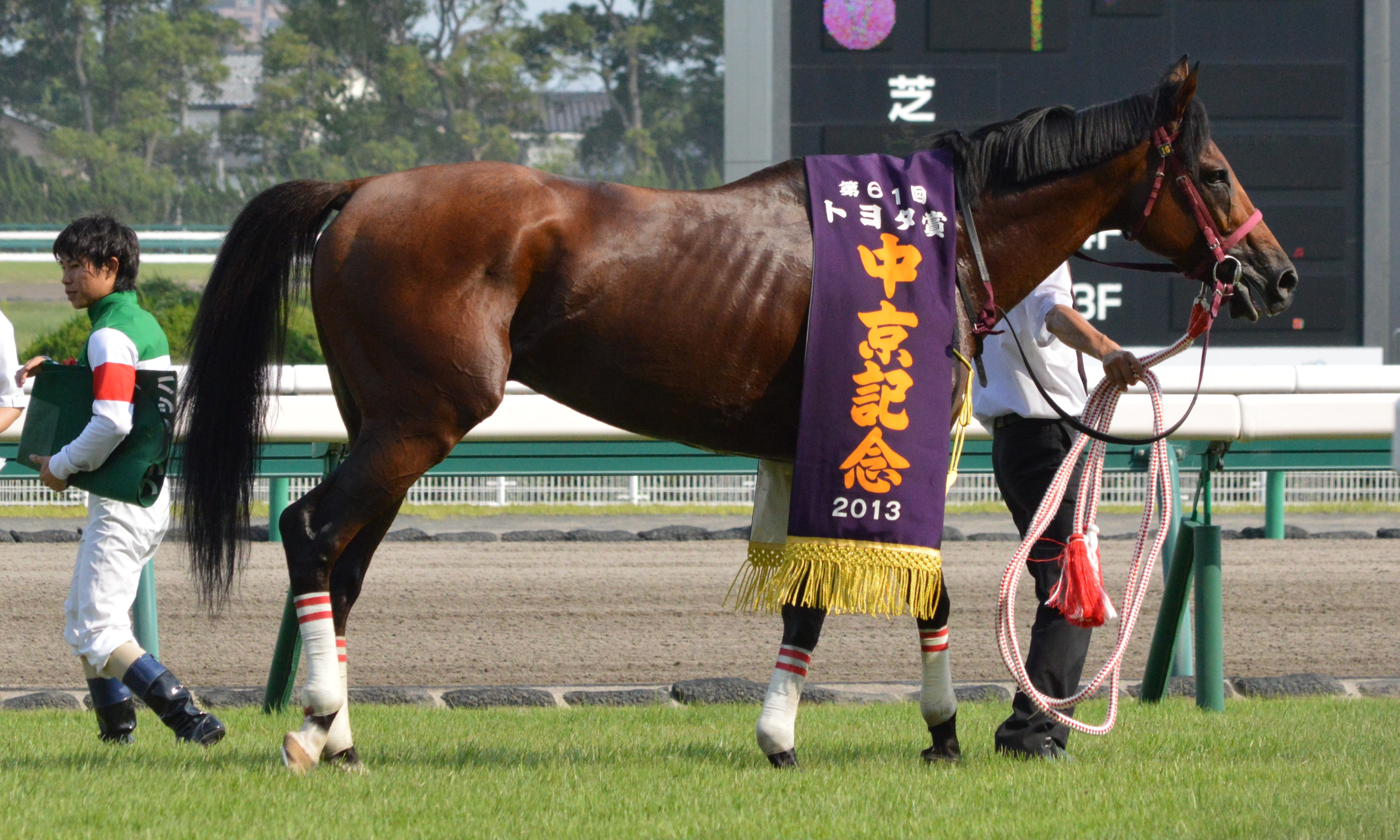 Japanese race horse Fragarach at Chukyo racecourse. Chukyo (JPN) 21 Jul 2013 Toyota Sho Chukyo Kinen (Grade 3 Handicap) (Turf) (3yo+) 1m Firm RankHorse NameOddsAgeWgtTrainerJockey1stFragarach (JPN)109/10H69-0Mikio MatsunagaRyo Takakura2ndMikki Dream (JPN)45/1H69-0Hidetaka OtonashiKeisuke Dazai3rdL'Ile D'Aval (JPN)51/10H69-0Yasutoshi IkeeYuichi Fukunaga4th - 15th/omission